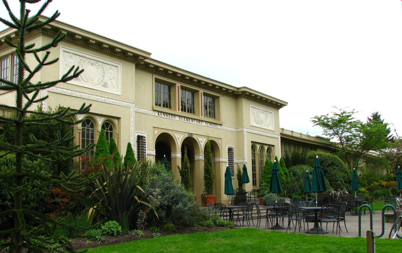 The historic John D. Kennedy Elementary School at 5736 Northeast 33rd Avenue in Portland, Oregon, United States, is listed on the US National Register of Historic Places. It is currently in use as a commercial pub/hospitality complex including a restaurant, bars, meeting/event rooms, theater, and bed and breakfast rooms.